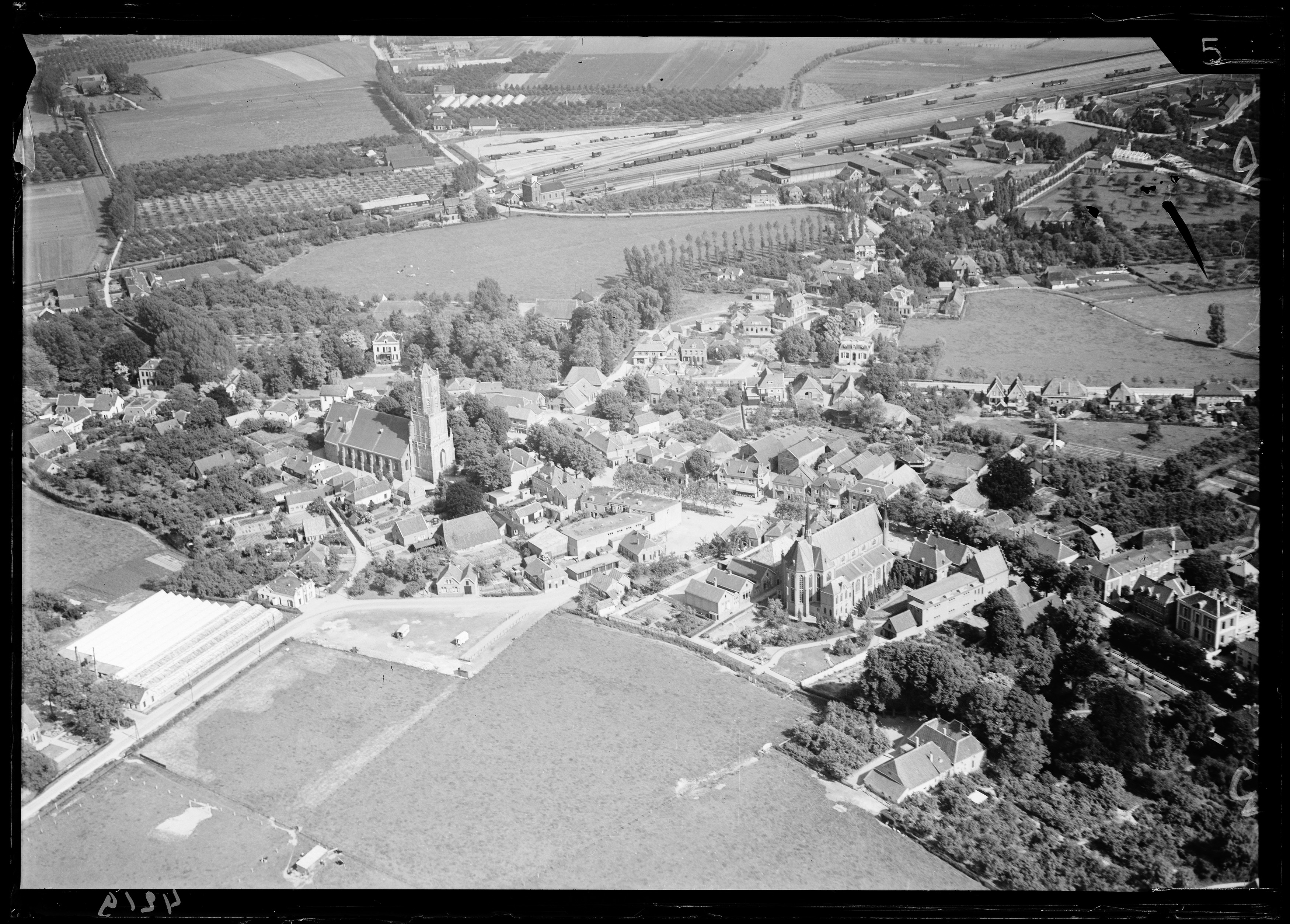 Aerial photograph of Elst, The Netherlands. Elst, Gelderland?